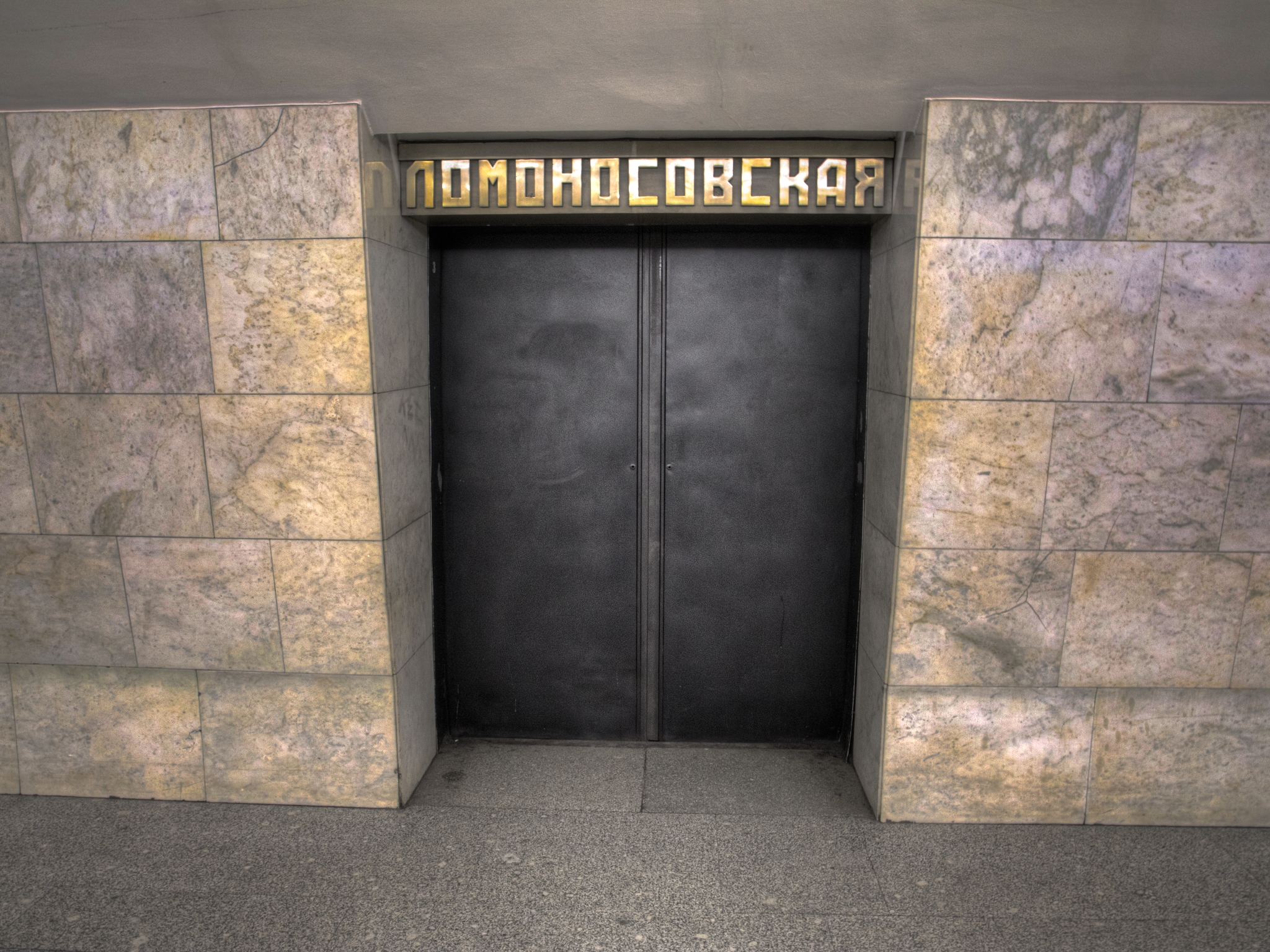 Lomonosovskaya station, doors; name. Saint Petersburg subway, 2011